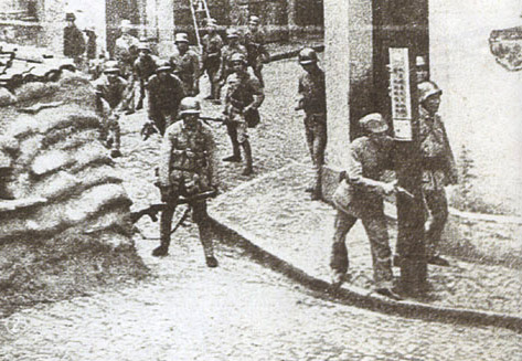 Soldiers from the 88th Division looking over a street.